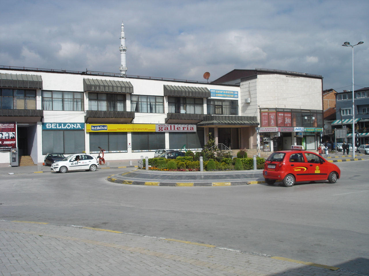 Center of culture ASNOM in Gostivar, Macedonia